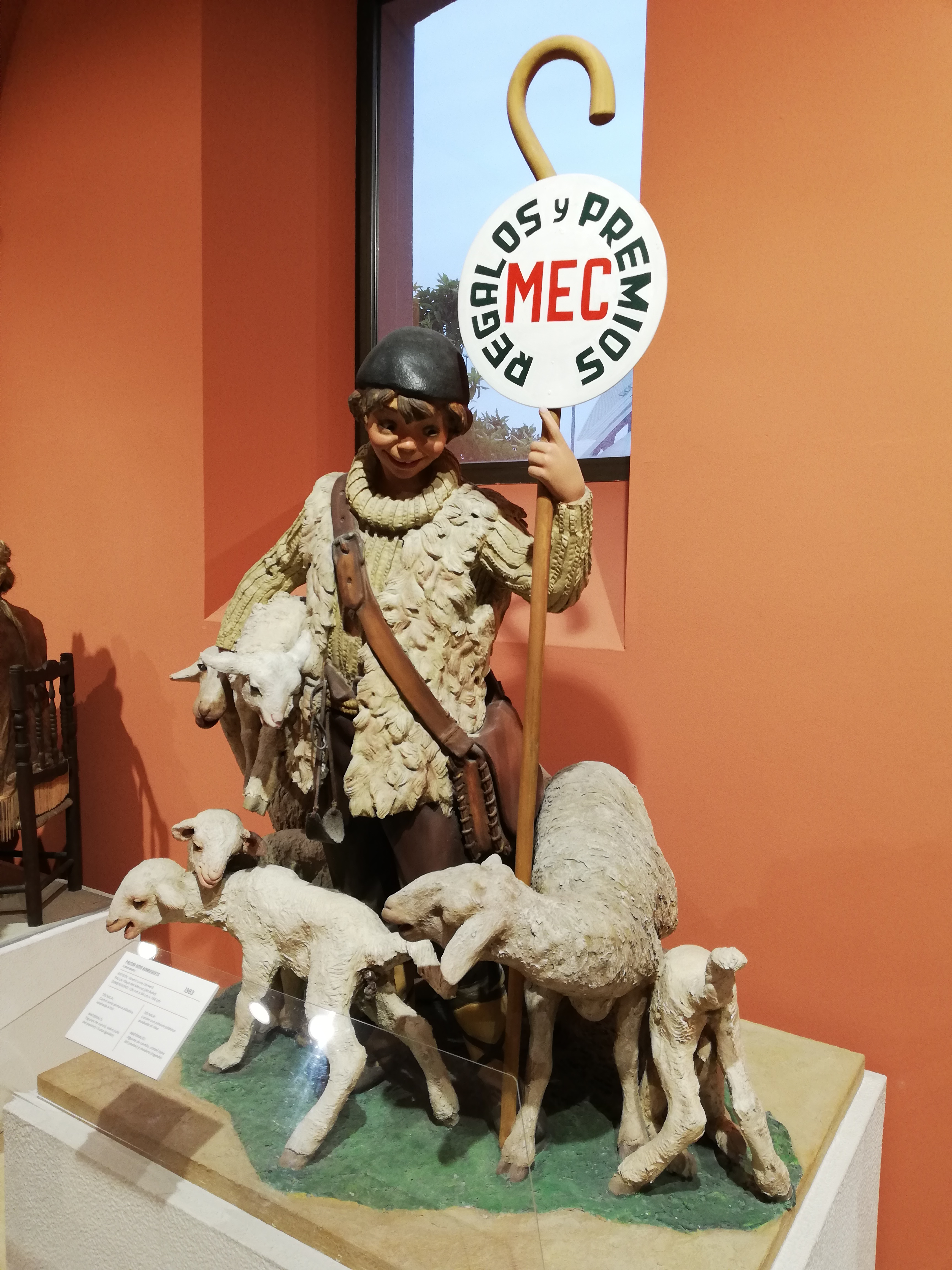 Ninot Indultat 1963 Falles de València